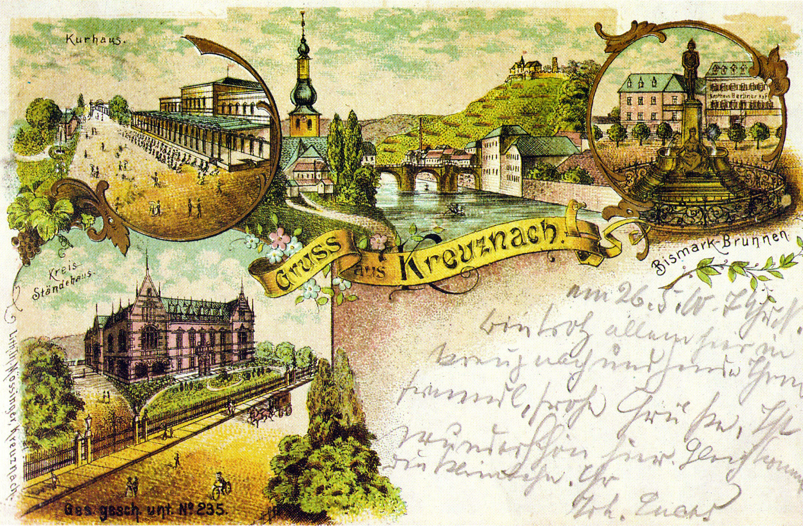 Sights of Bad Kreuznach. Picture postcard, c. 1900.